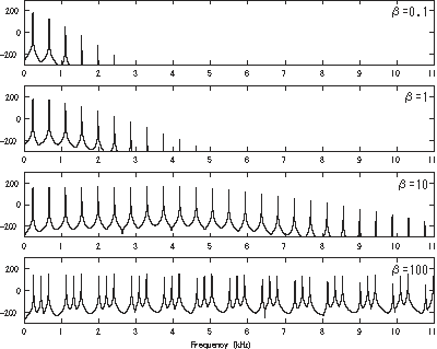 Graphs of frequency modulation spectra for various modulation indices.